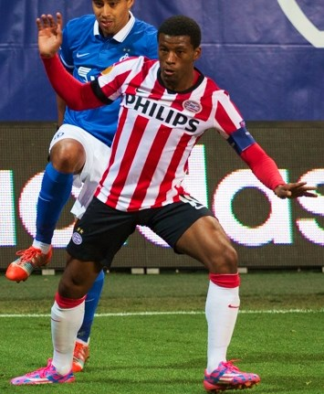 Georginio Wijnaldum